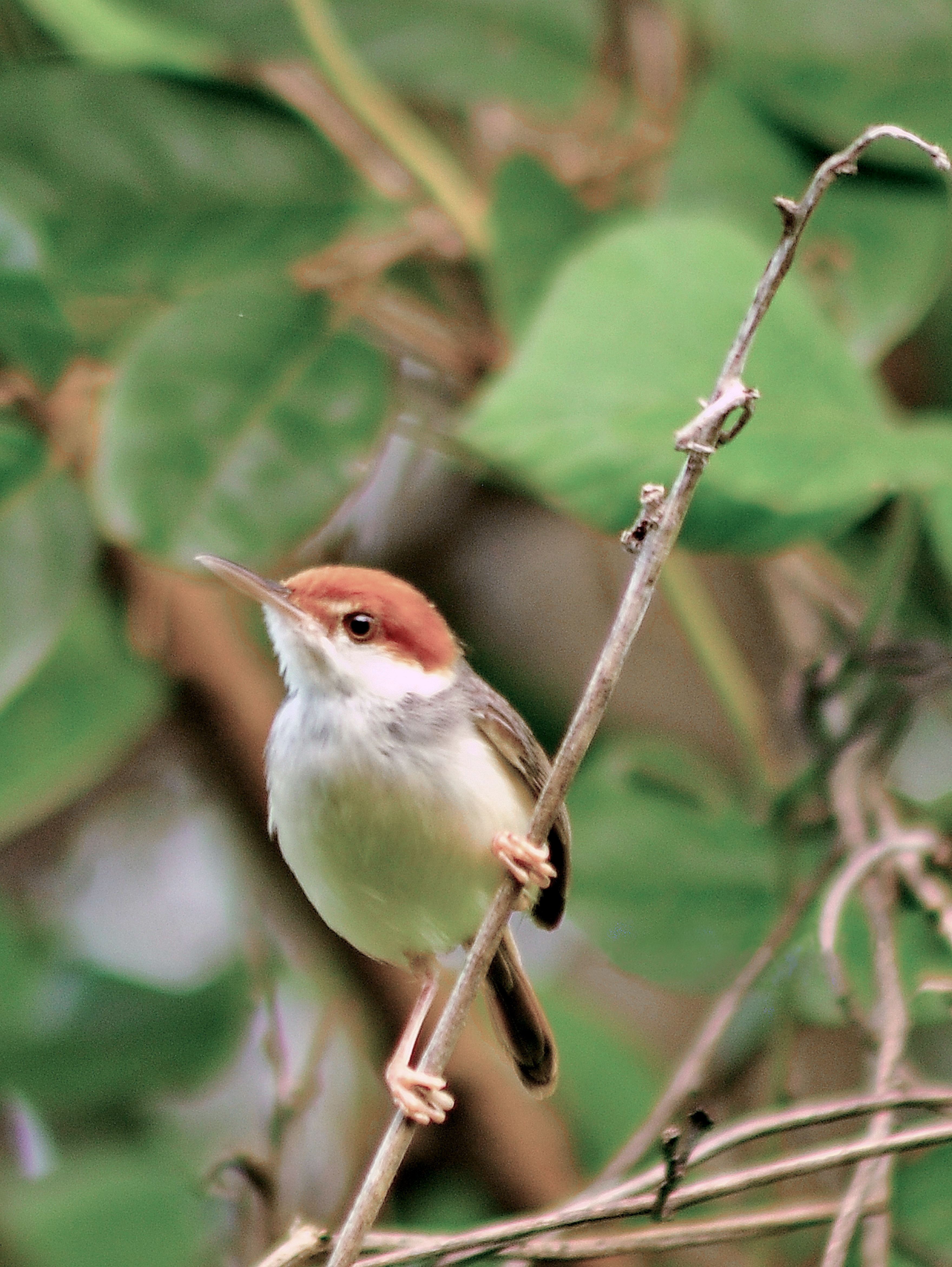 very elusive bird. photo was taken in Sitio Apan, Puerto Princesa City, Palawan, Philippines.